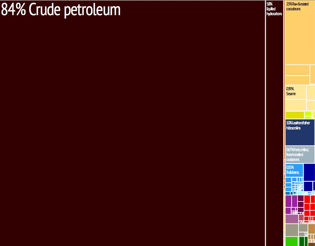 Export Trading Treemap. From MIT/Harvard Atlas of Economic Complexity